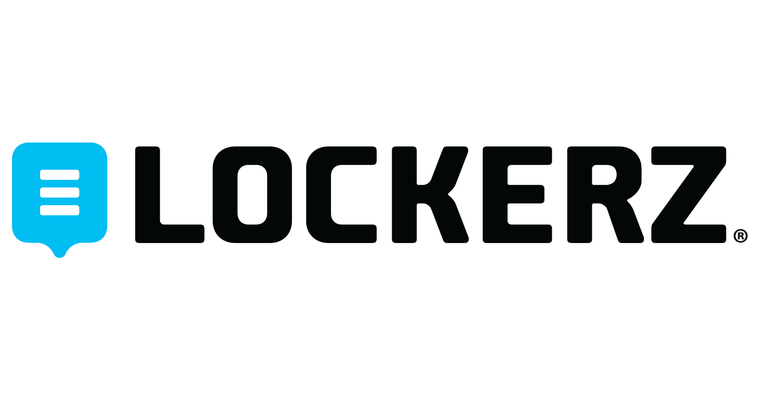 Lockerz logo. Note:Words and short phrases such as names, titles, and slogans; familiar symbols or designs; mere variations of typographic ornamentation, lettering or coloring; ...typeface as typeface; are not subject to copyright. Also see Image_casebook Trademarks